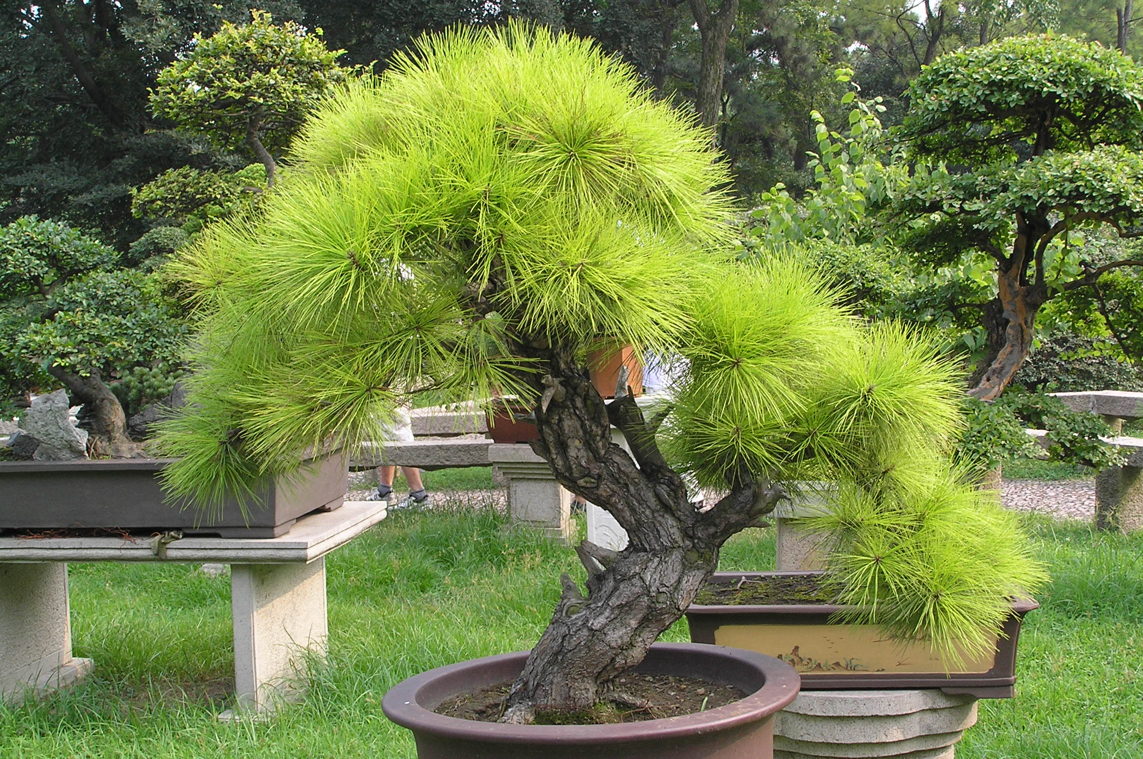 Penjing (Chinese precursor of Japanese bonsai). In the gardens at Tiger Hill of Yunyan Ta (Cloud Rock Pagoda), also known as the 'leaning pagoda' — Suzhou, China. Author: Mr. Tickle Date: 07/27, 2005